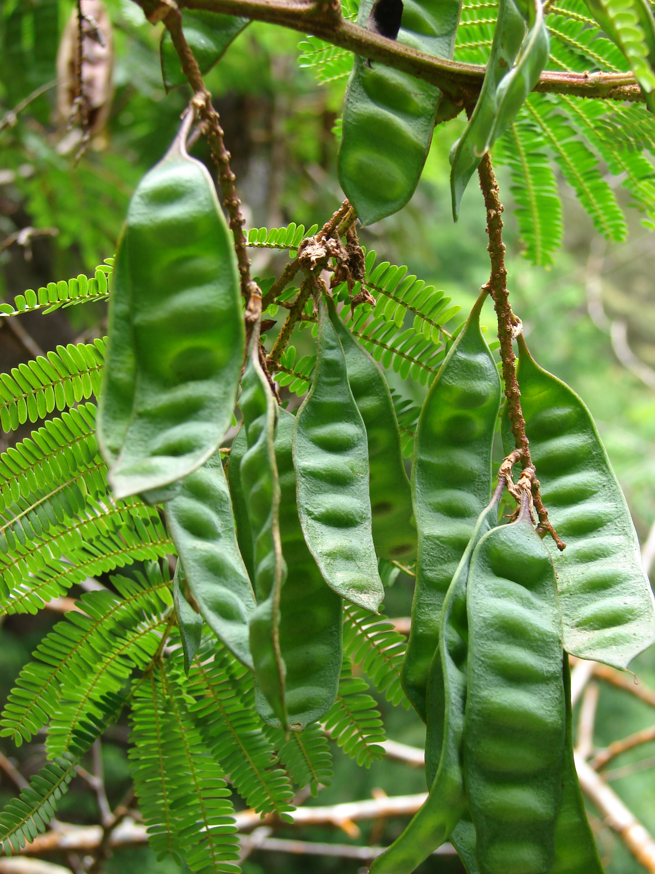 Immature pods of Paraserianthes lophantha